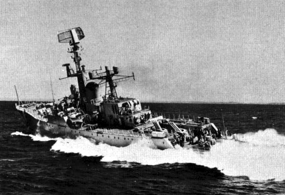 The Australian destroyer HMAS Yarra (DE 45) underway, circa 1962.